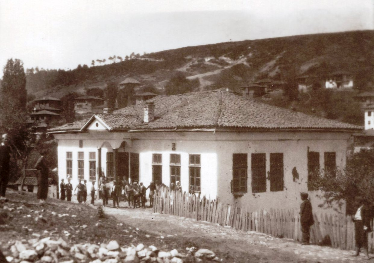 Old school in the village Rusinovo, Berovo Municipality This media file is produced by Wikipedian in Residence in Category:Wikipedian in Residence at DARM in 2016.